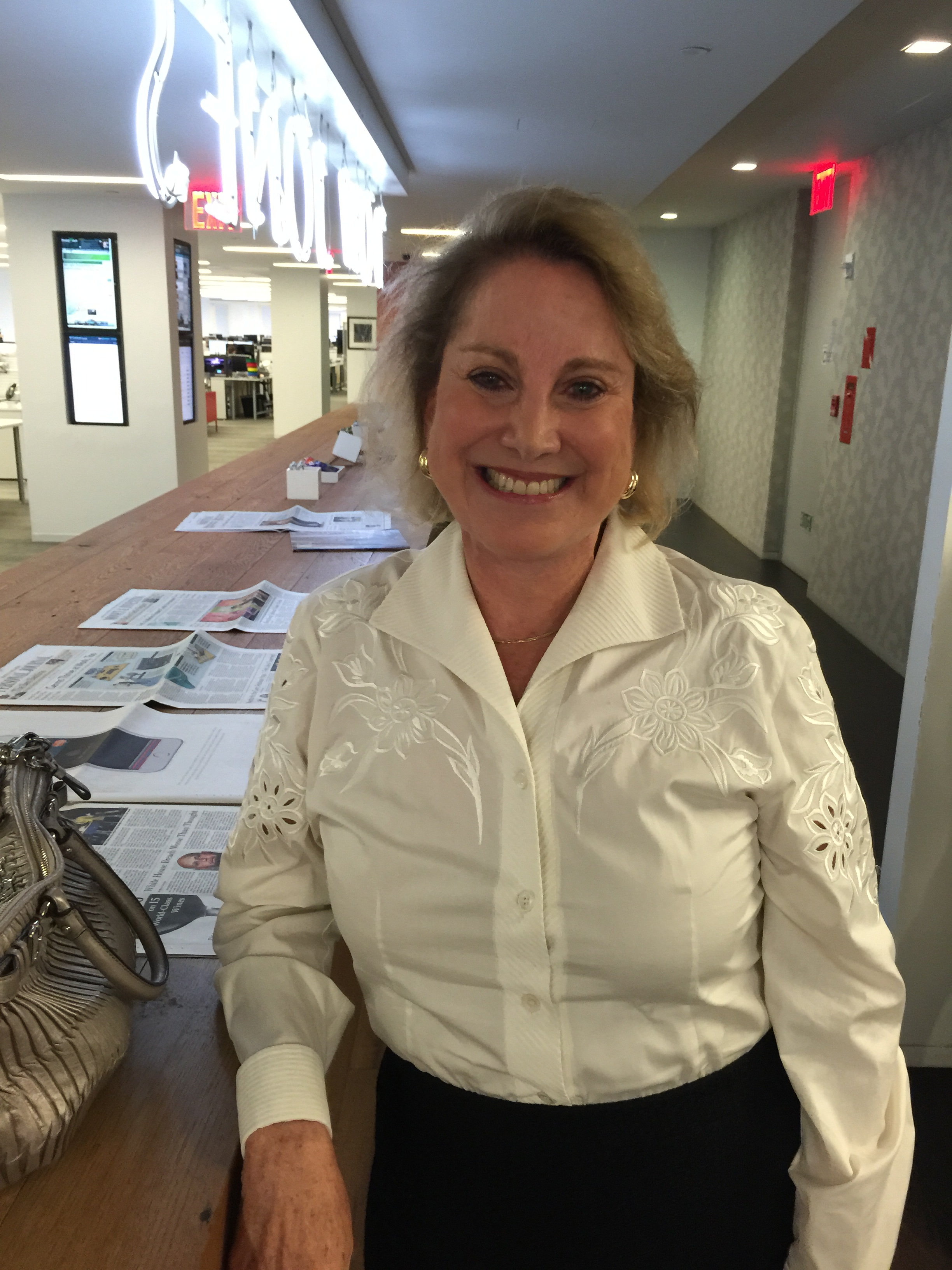 Sandra Kurtzig is an American businesswoman and technology entrepreneur. She was one of Silicon Valley's first female entrepreneurs, and as the founder of the business and manufacturing software producer ASK Group in 1972, was the first woman to take a Silicon Valley technology company public.